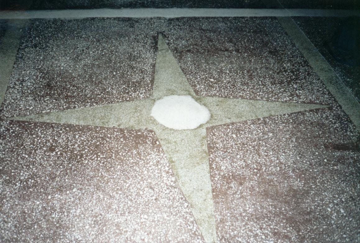 Floor in Mor Gabriel Monastery (also: The Monastery of St. Gabriel, Deyrulumur Monastery or Dayro d-Mor Gabriel, Aramaic: ܕܝܪܐ ܕܡܪܝ ܓܒܪܐܝܠ)